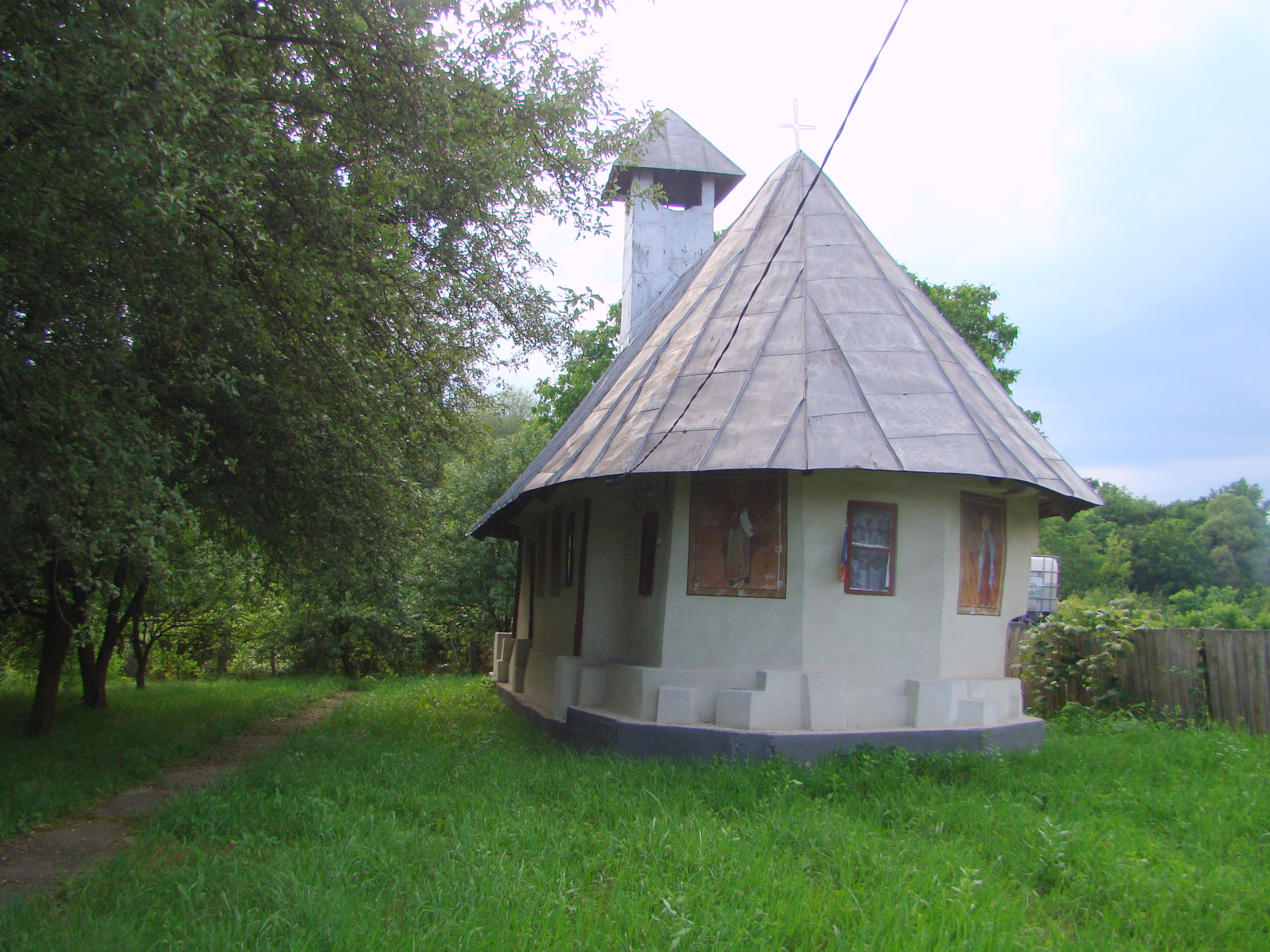 Wooden church in Urechești, Gorj county, Romania